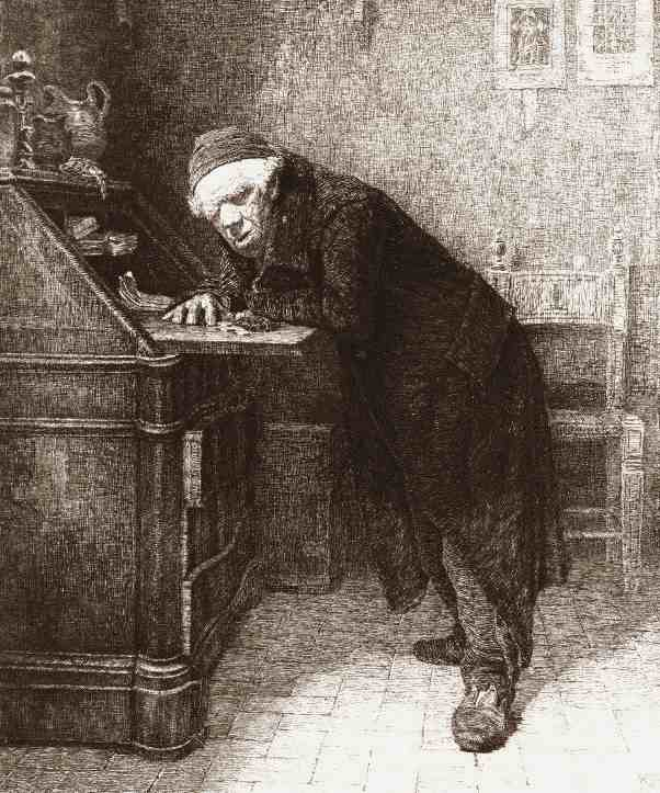 A detail from L’Avaro, a print by Antonio Piccinni (1878) in the British Museum